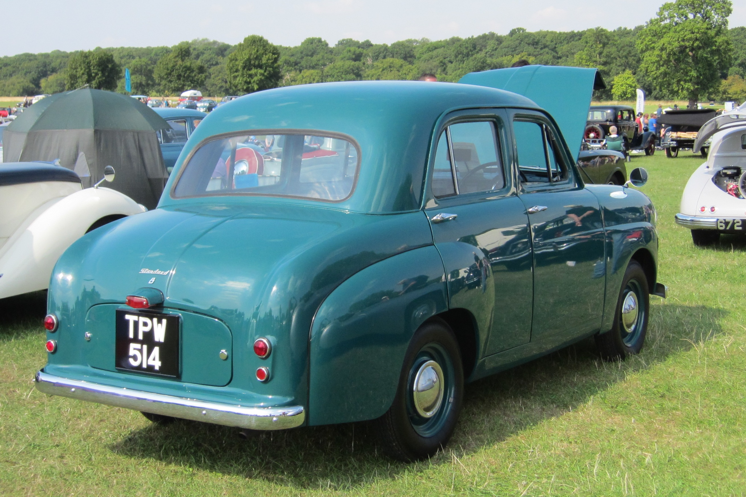 Standard 8 (1955)